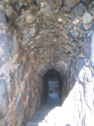 Belvoir secret passage.